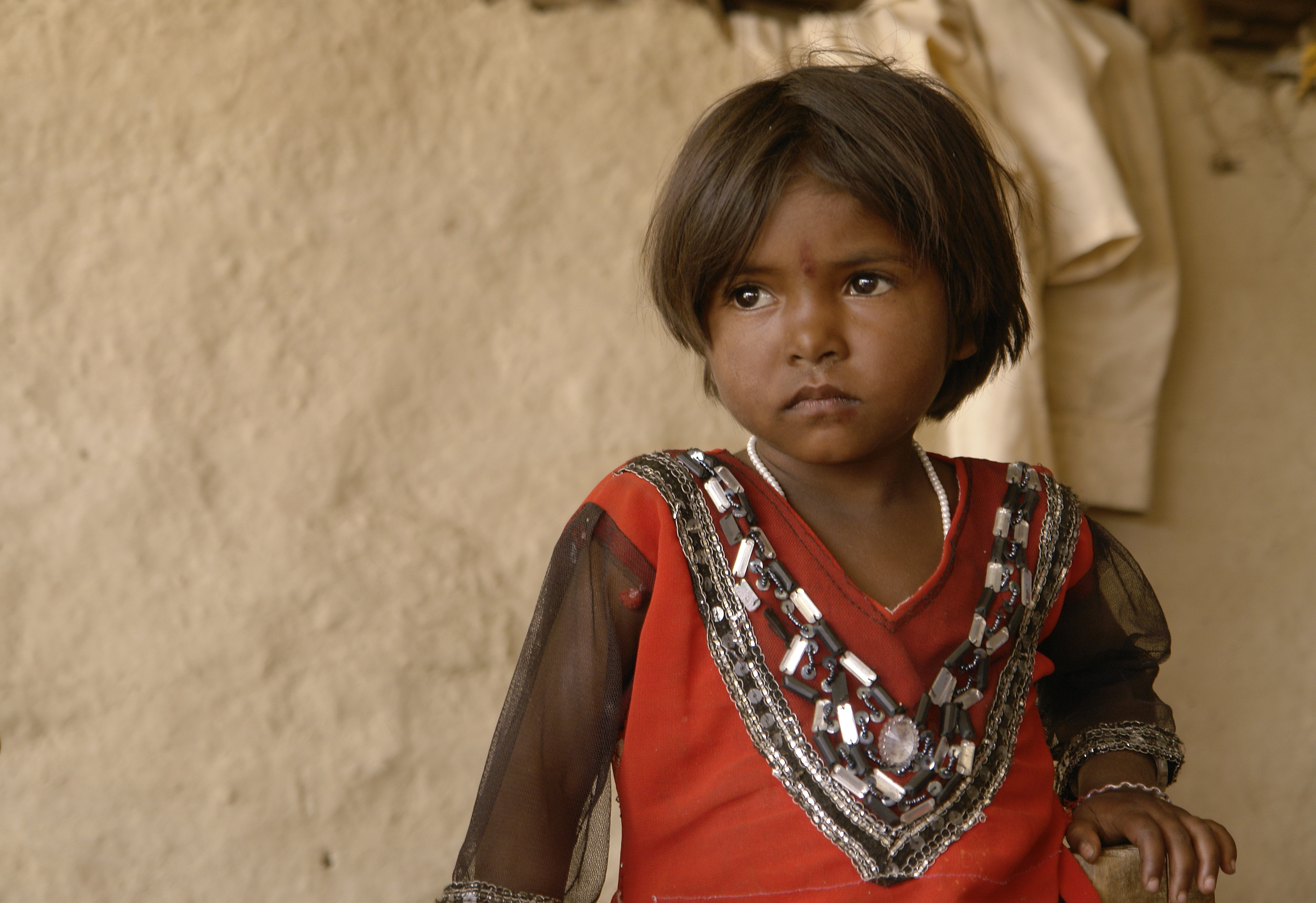 Young Indian girl from an adivasi tribe (Bhil), Raisen district, Madhya Pradesh, India.